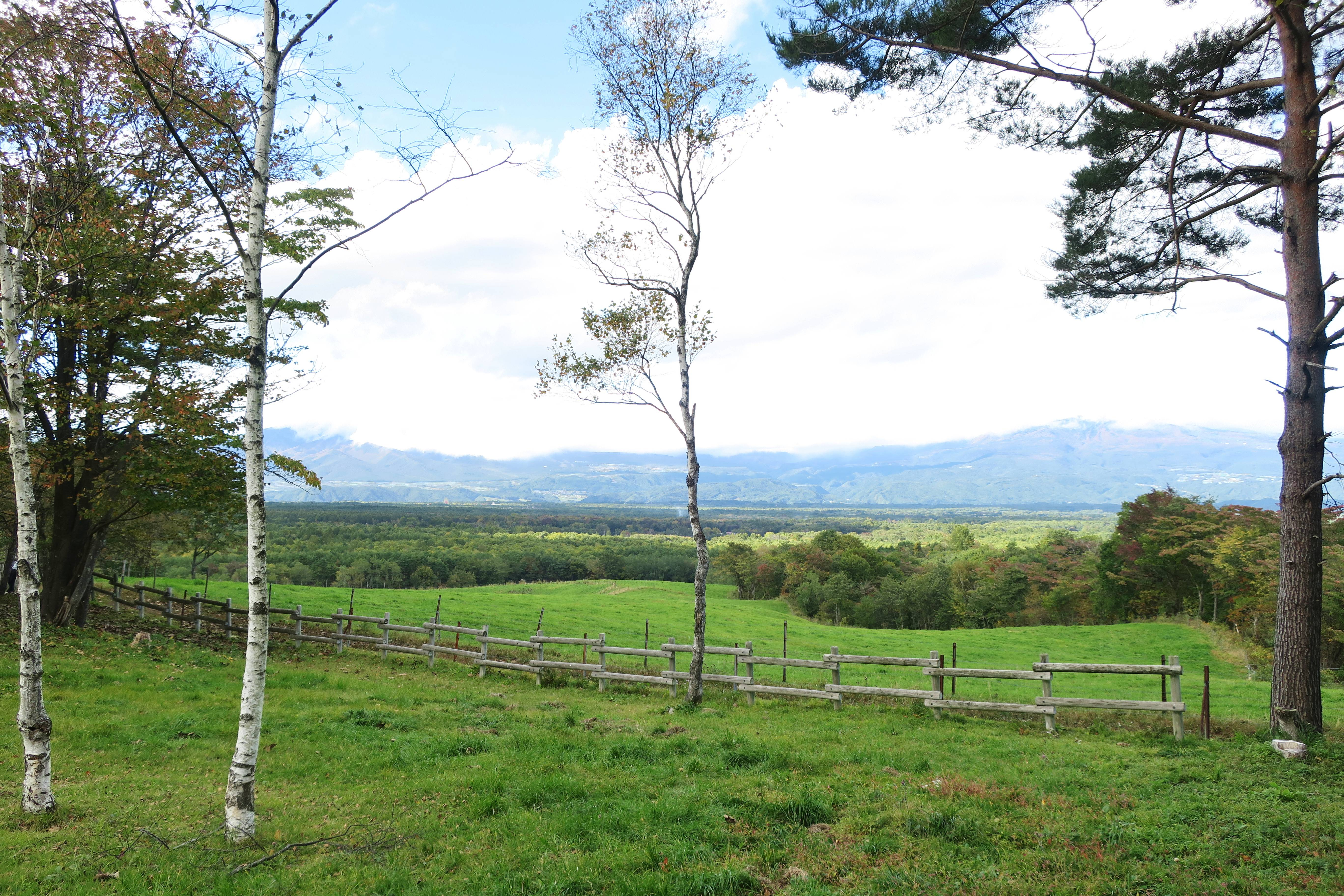 Asama Dairy Farm (Naganohara).